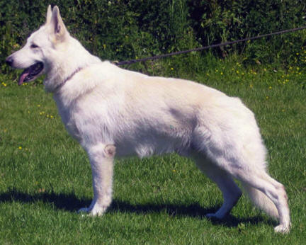 Bossanova of White Angel, first White Swiss Shepherd in Holland with I.P.O. III